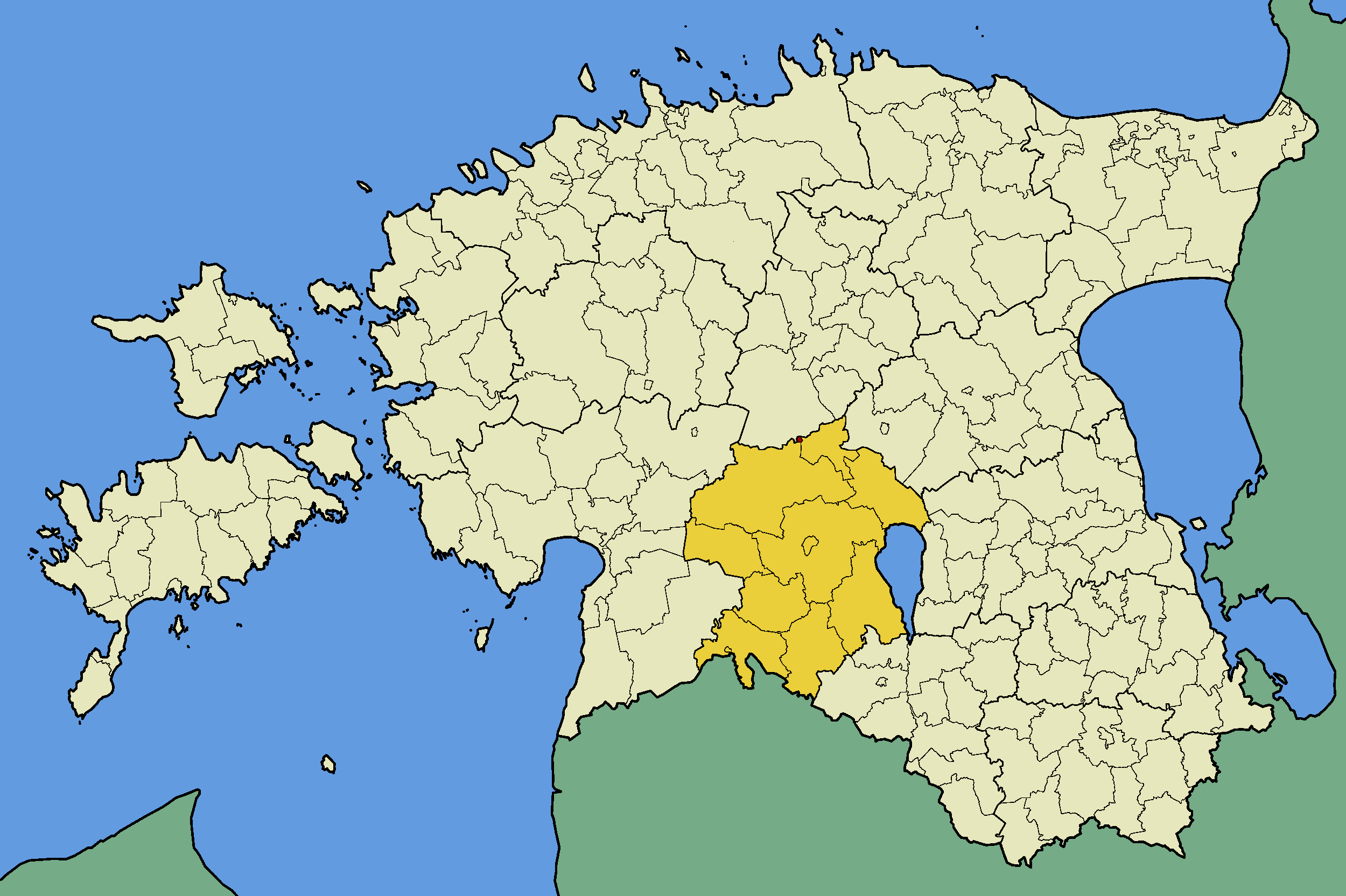 Map of Estonia with borders of municipalities (parishes). Viljandi county and Võhma town municipality emphasized.